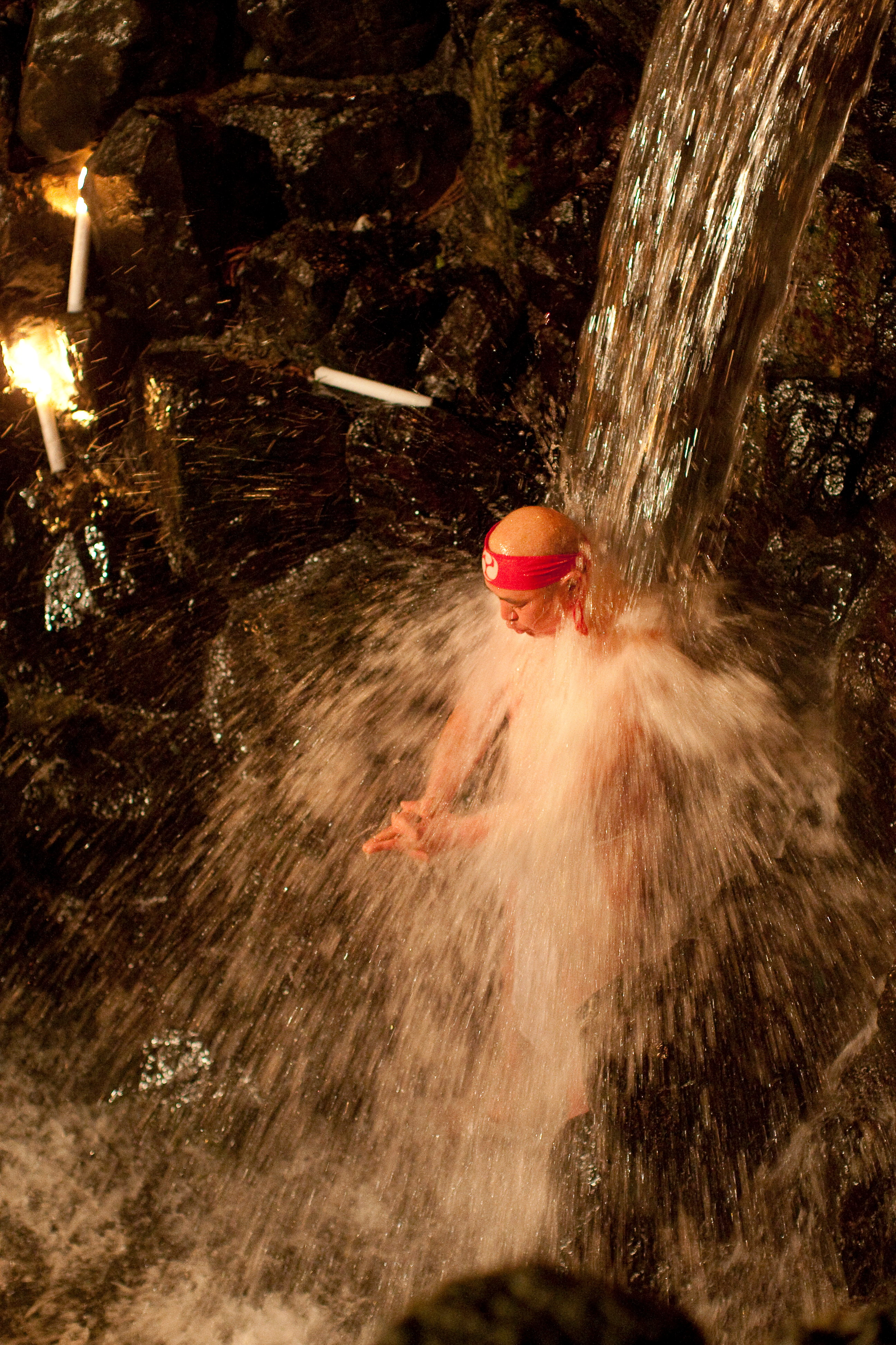 Misogi Harai at Tsubaki Jinja Japan